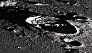 Anaxagoras lunar crater as seen from Earth with satellite craters labeled